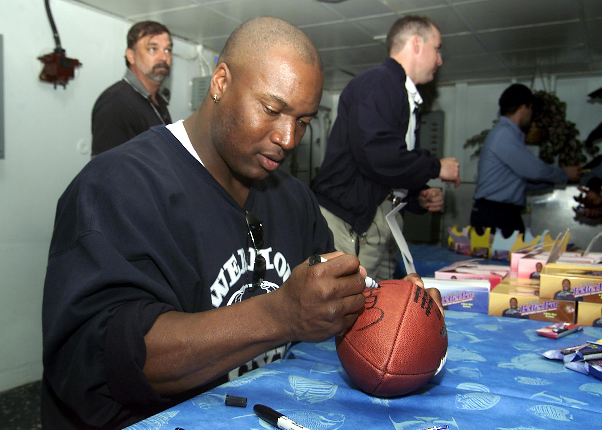 USS SAIPAN (LHA 2) May 22, 2002 -- Sports star Bo Jackson visits the crew aboard the amphibious assault ship USS Saipan. The Saipan is conducting upkeep and training exercises at Naval Station, Norfolk, VA. U.S. Navy Photo by Photographer's Mate 3rd Class Robert Matthew Schalk (RELEASED)